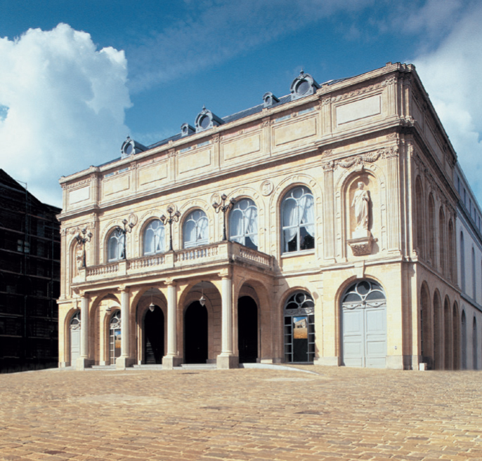 Théâtre Royal, Namur, Belgium